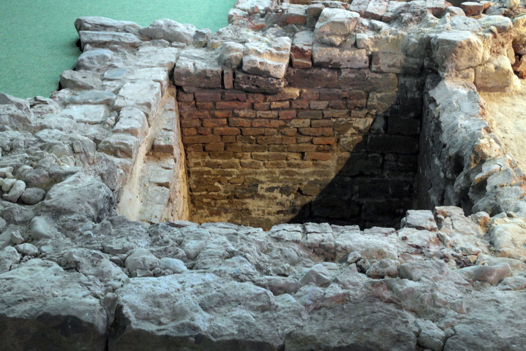 View of the Venlo mikveh, excavated in Venlo in 2004 and relocated to the Limburgs Museum in Venlo, the Netherlands. There are some doubts whether this was a real mikveh.